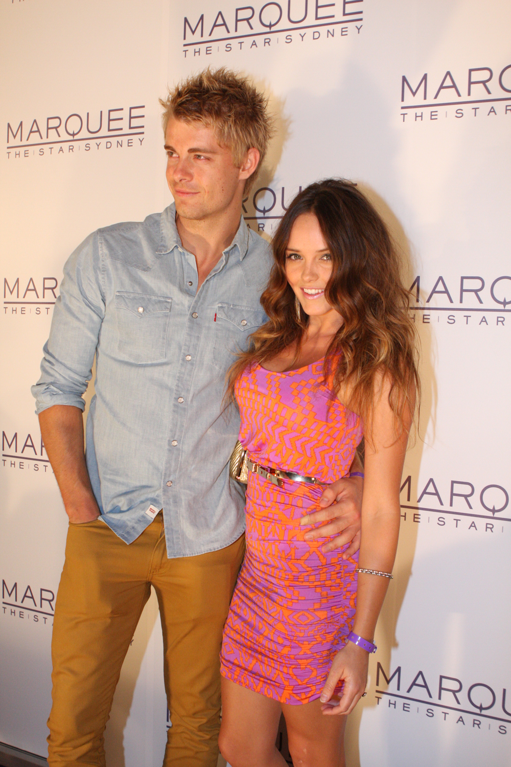 Australian actor Luke Mitchell and Rebecca Breeds at the opening of the Marquee The Star Sydney, Australia